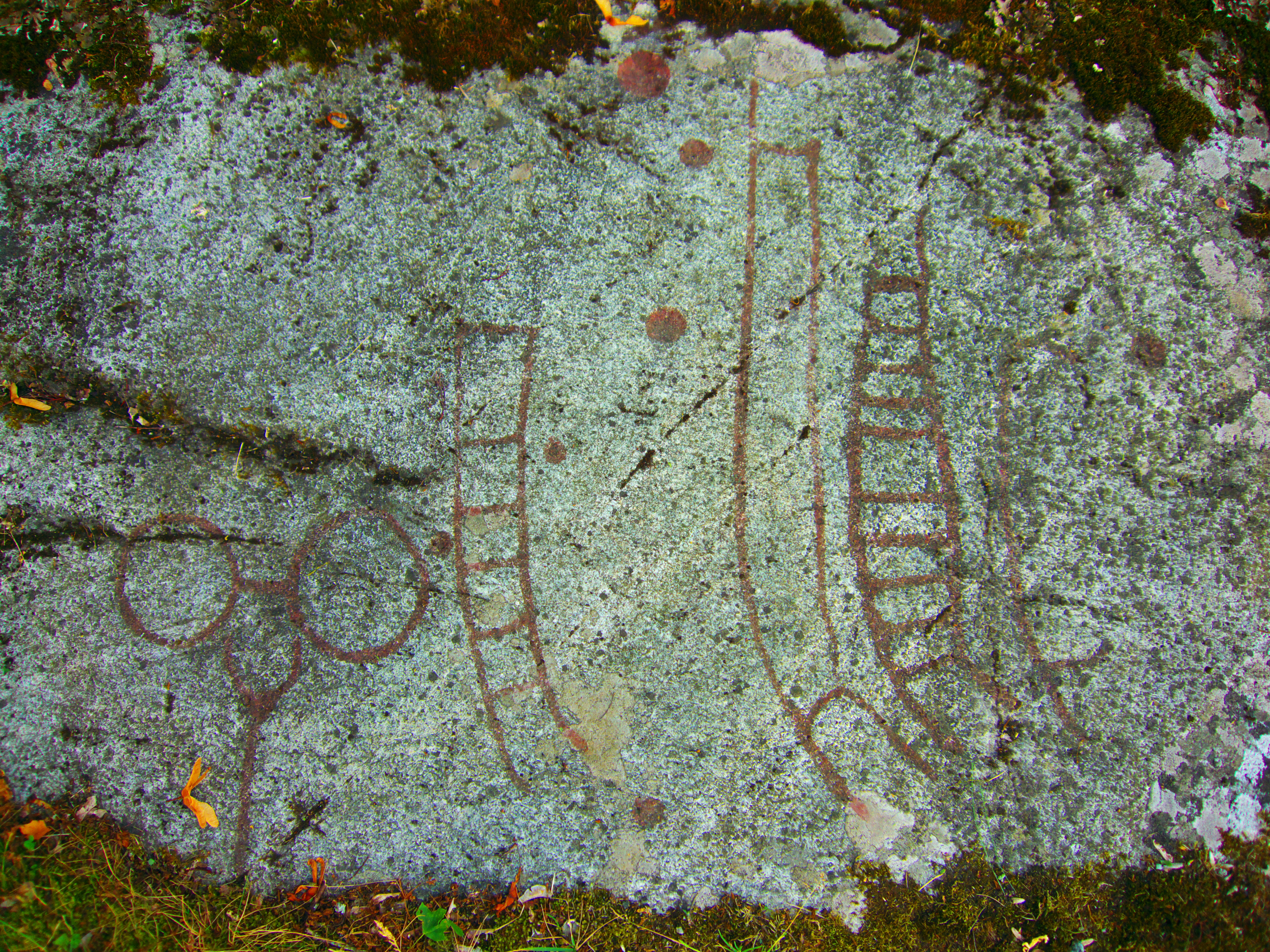 Petroglyphs by Björksta church, Västerås municipality, Västmanland, Sweden.